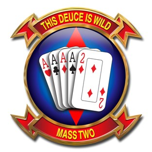 Squadron insignia for MASS-2